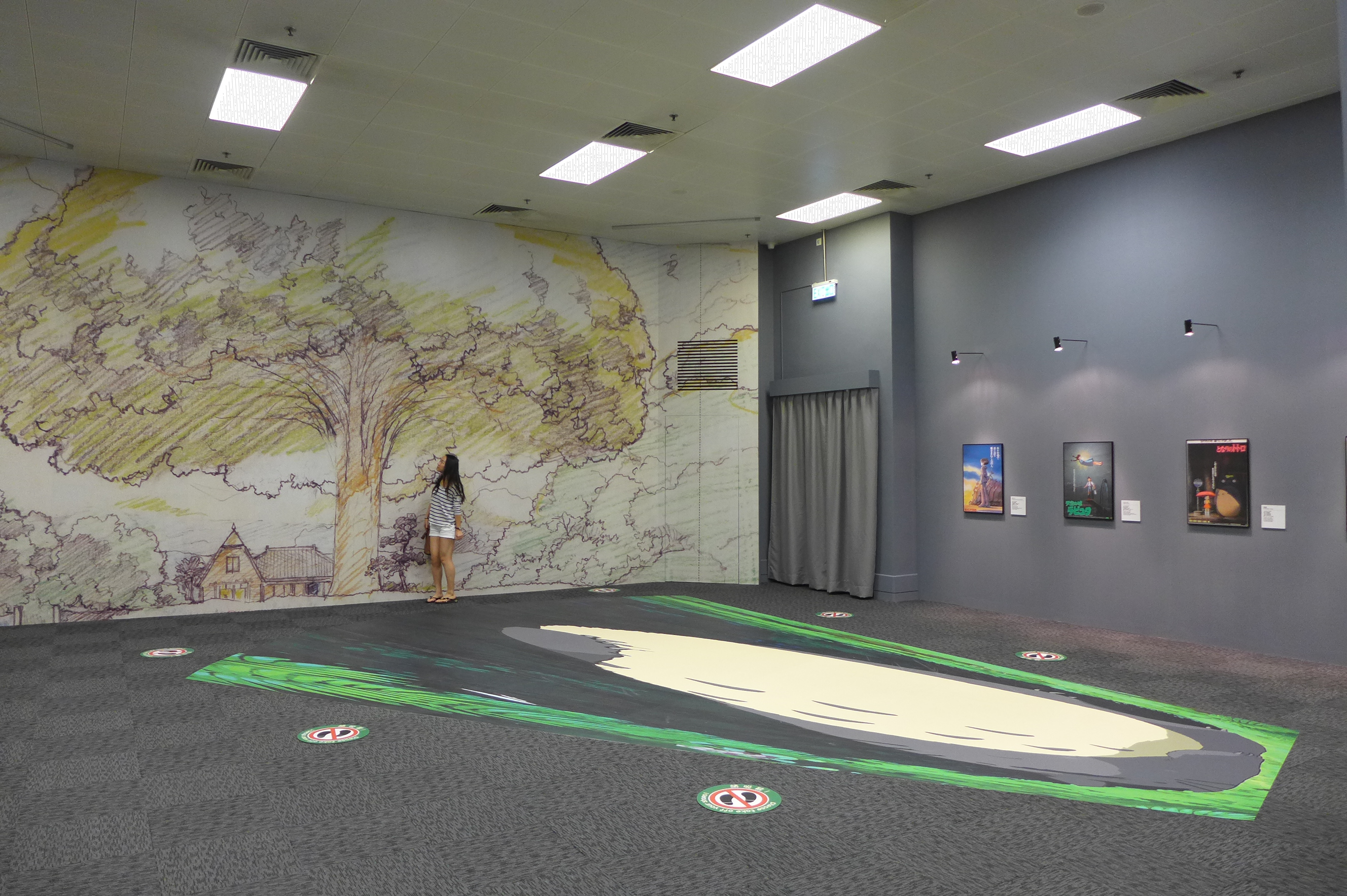 Studio Ghibli Layout Designs: Understanding the Secrets of Takahata and Miyazaki Animation” Exhibition